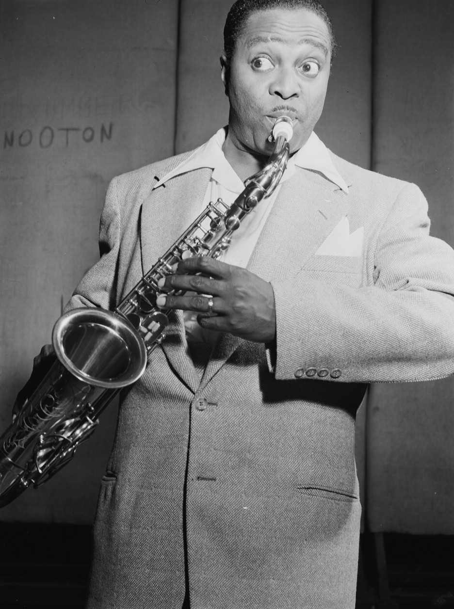 Portrait of Louis Jordan, Paramount Theater(?), New York, N.Y., ca. July 1946. Louis got second billing to Glen Gray at the Paramount, recently, but it was Louis who pulled them in. He also ran uptown to Harlem and added to the hoop-la of the world premier of his full length movie, "Beware," successor to "Caldonia."